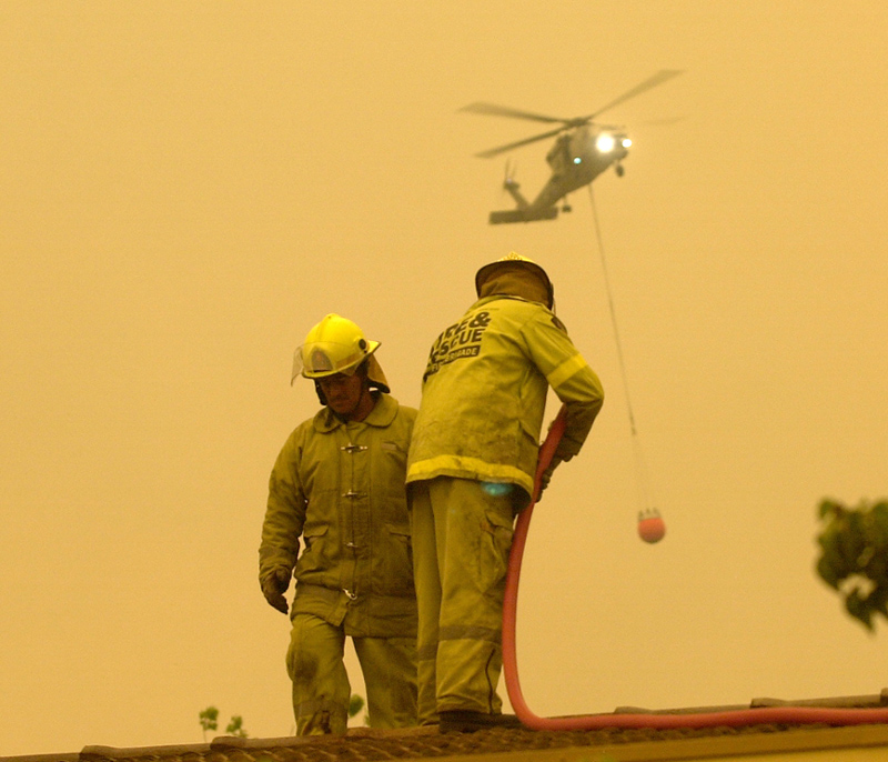 ACT Fire Brigade firefighters play a hose on the roof of the Emergency Services headquarters as a press conference gets under way. Behind them a Royal Australian Navy water-bombing helicopter heads off to a blaze.- 2003 Canberra Bushfires